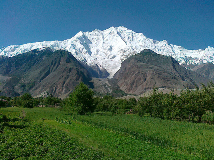 Nasirabad, Hunza Valley, a stunning view of Rakaposhi